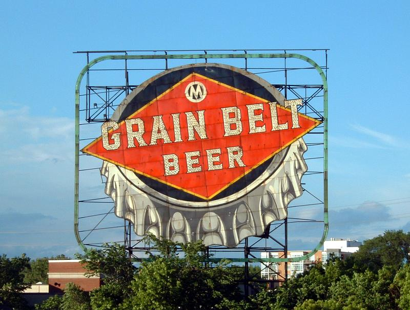 Landmark Grain Belt Beer sign in Minneapolis, Minnesota.